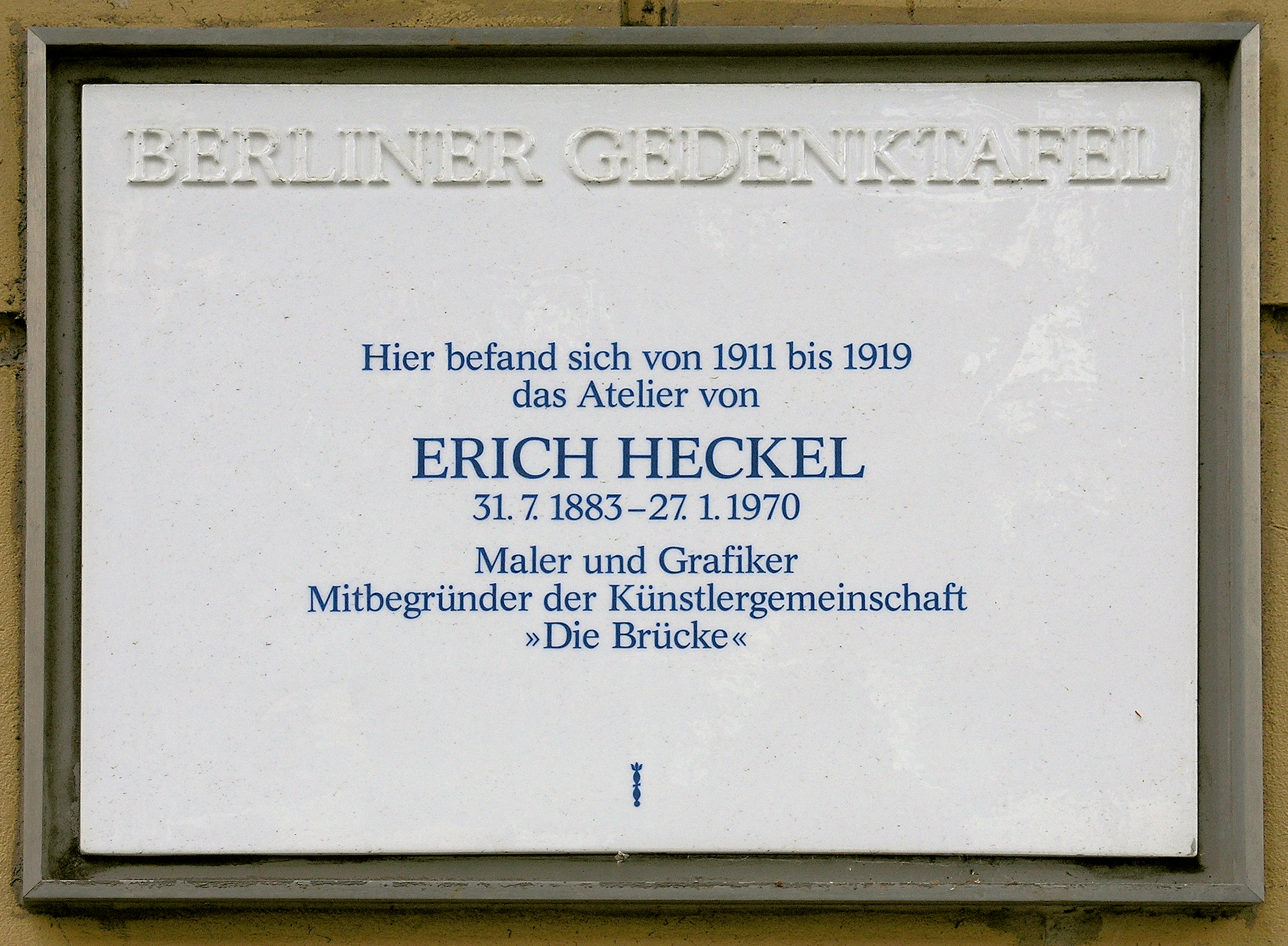 Berlin memorial plaque, Erich Heckel, Markelstraße 60, Berlin-Steglitz, Germany Koordinate:52°27′49″N 13°19′32″E / 52.46361°N 13.32556°E